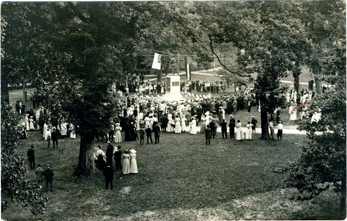 A postcard photograph of the unveiling of the Confederate Monument Silent Sam at the University of North Carolina on June 2, 1913. The postcard was sent by "Drew", on the very day of the unveiling, to Mrs. M.F. Patterson in Winston-Salem, N.C., and says: "My dear Mother, This is a photo. of the unveiling of our new monument to those who left the Univ. to enlist in the army in 1861. The parade yesterday was a fine one, & Mary & the other looked very picturesque in your dresses. We'll take good care of them & thank you for them. All well. Love to all. Affectionately, Drew." .